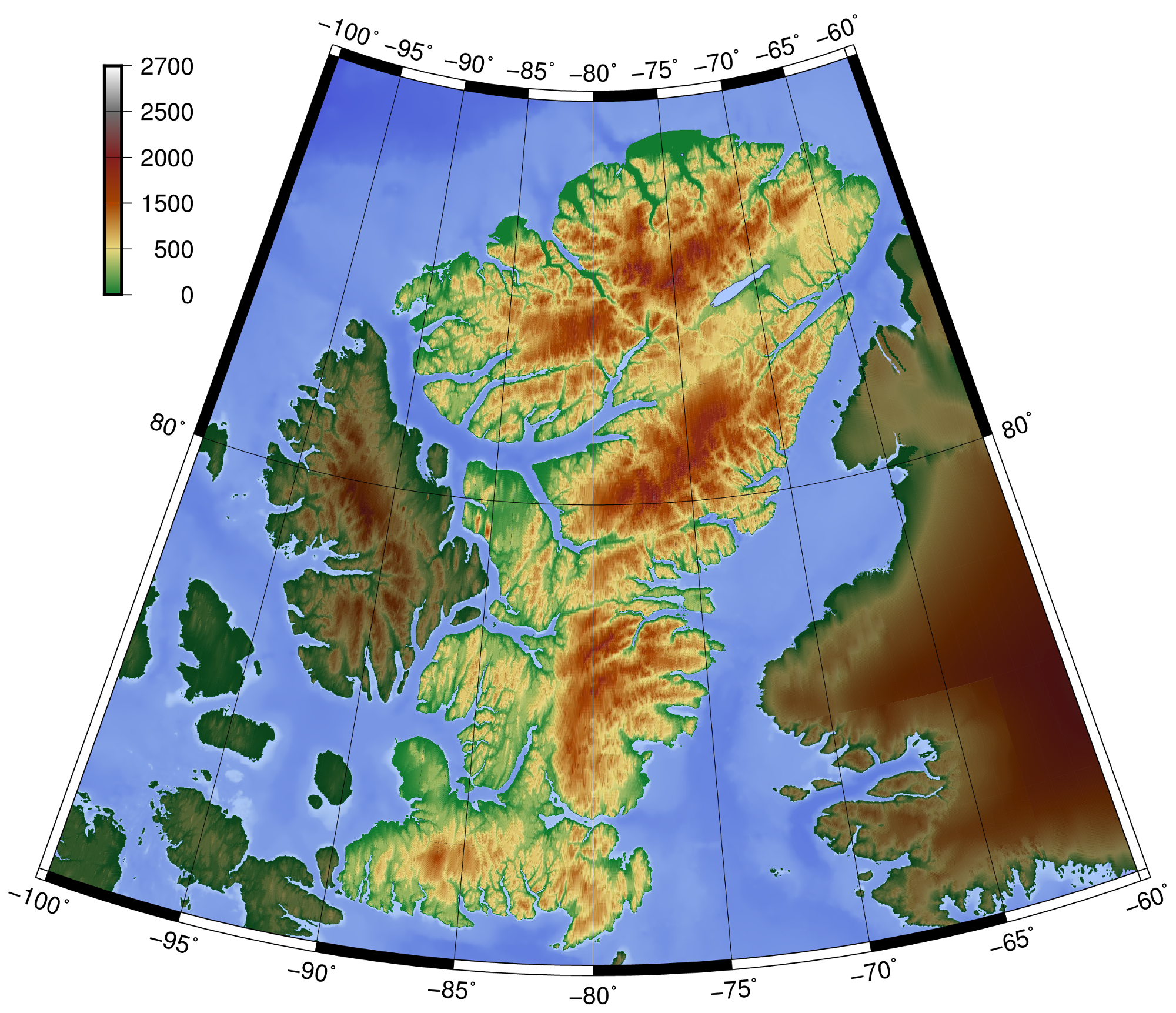 Topography of Ellesmere Island, created with GMT 5.2.1